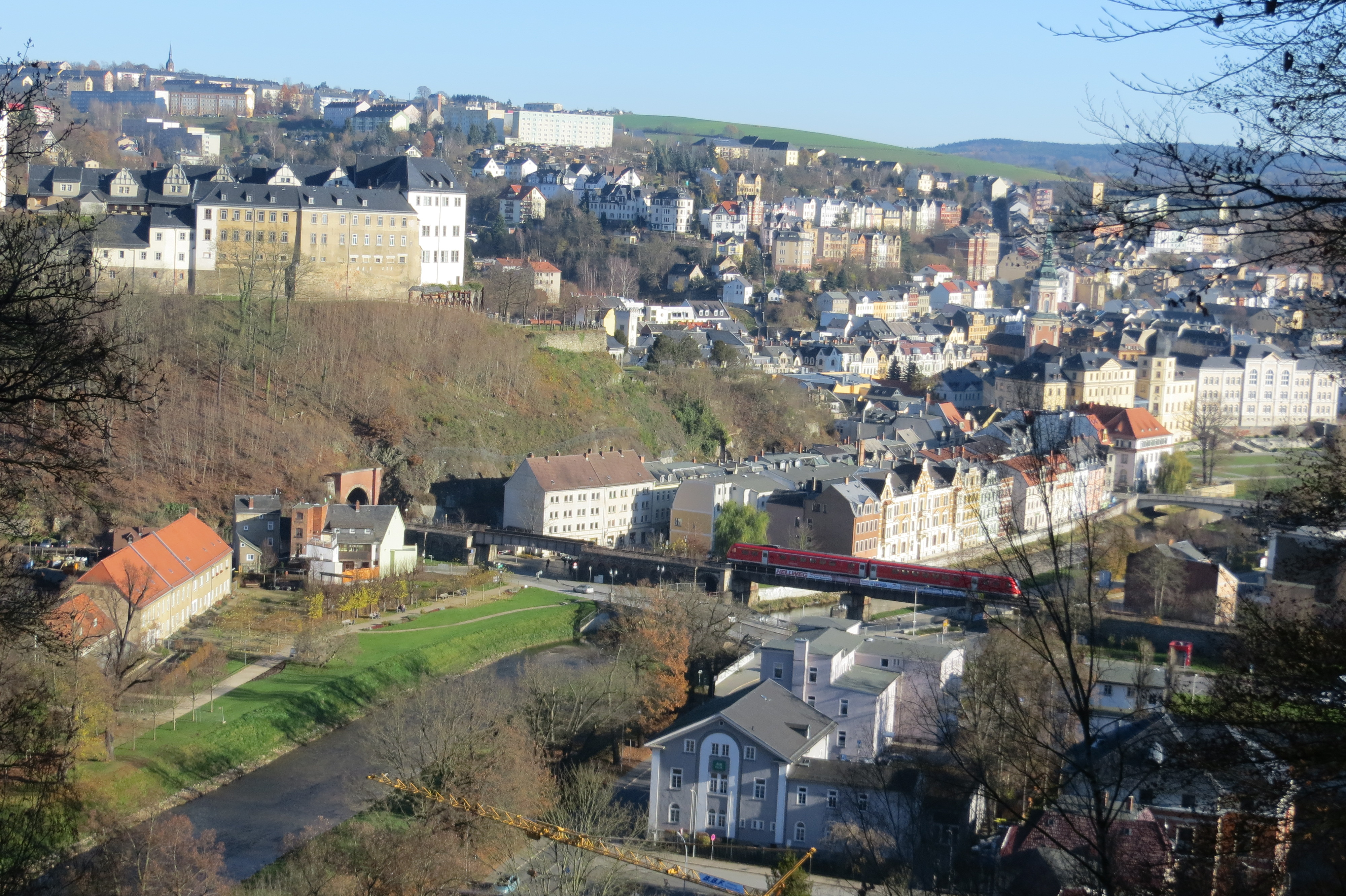 City of Greiz seen from the Gasparinentempel